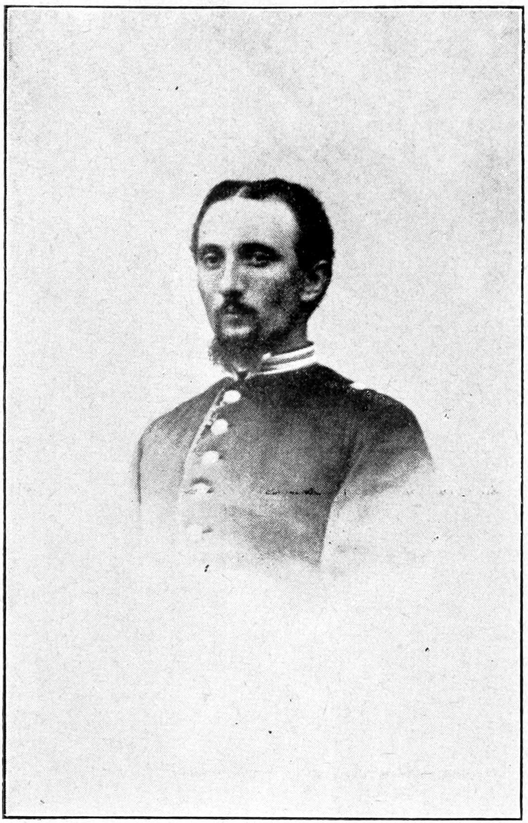 Image from book: Leopoldo Pullè, Patria Esercito Re, Ulrico Hoepli, Milan, 1908.